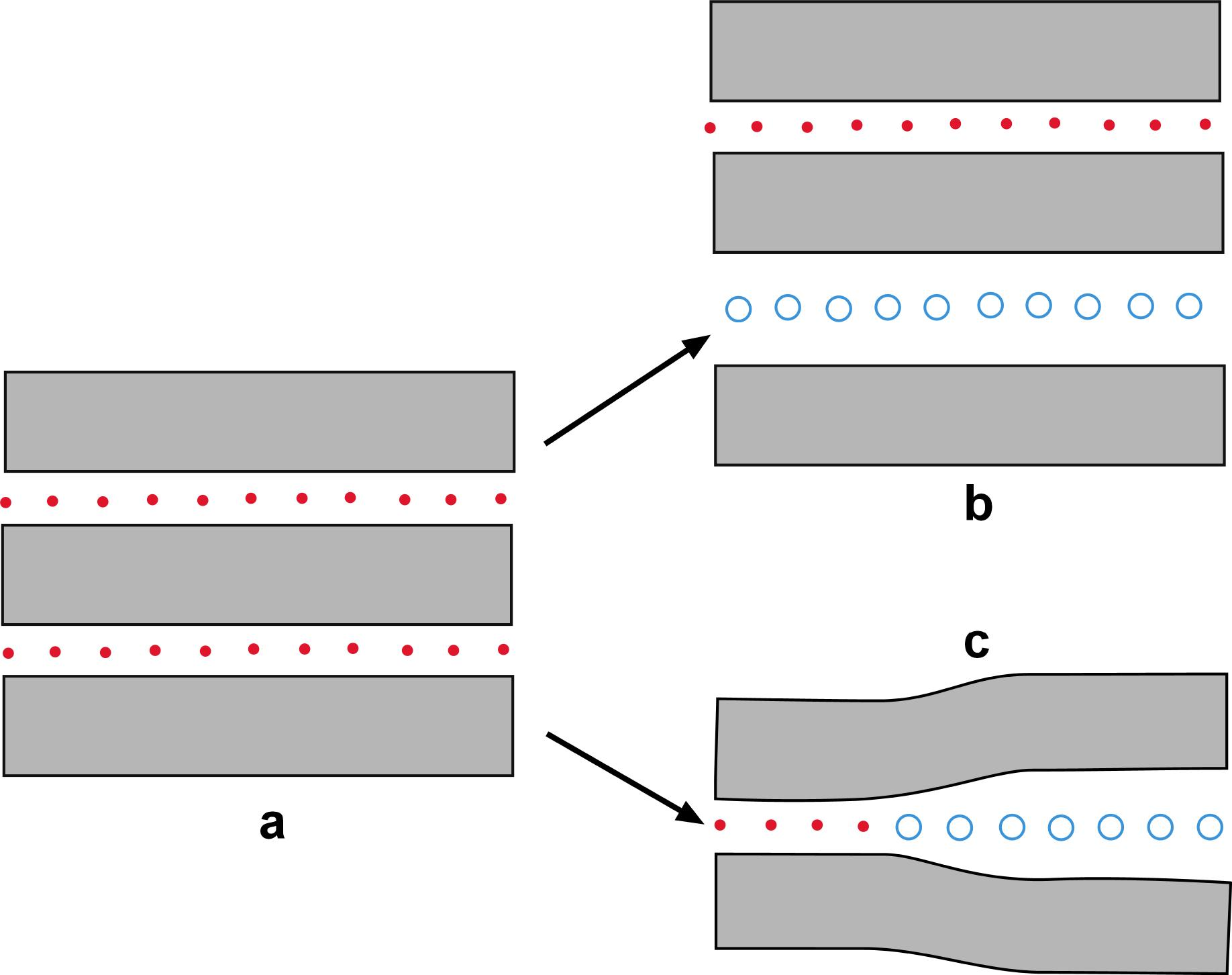 Scheme of biotite alteration, exchange of potassium (red dots) against hydrated ions from the weathering solution (vlue circles). a) unaltered biotite, b) layer exchange, c( exchange from the edges